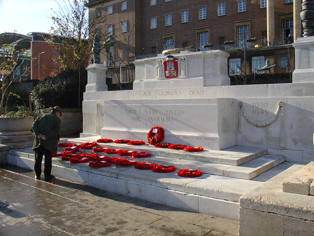 War memorial in the Garden of Remembrance, Norwich “We shall remember them”